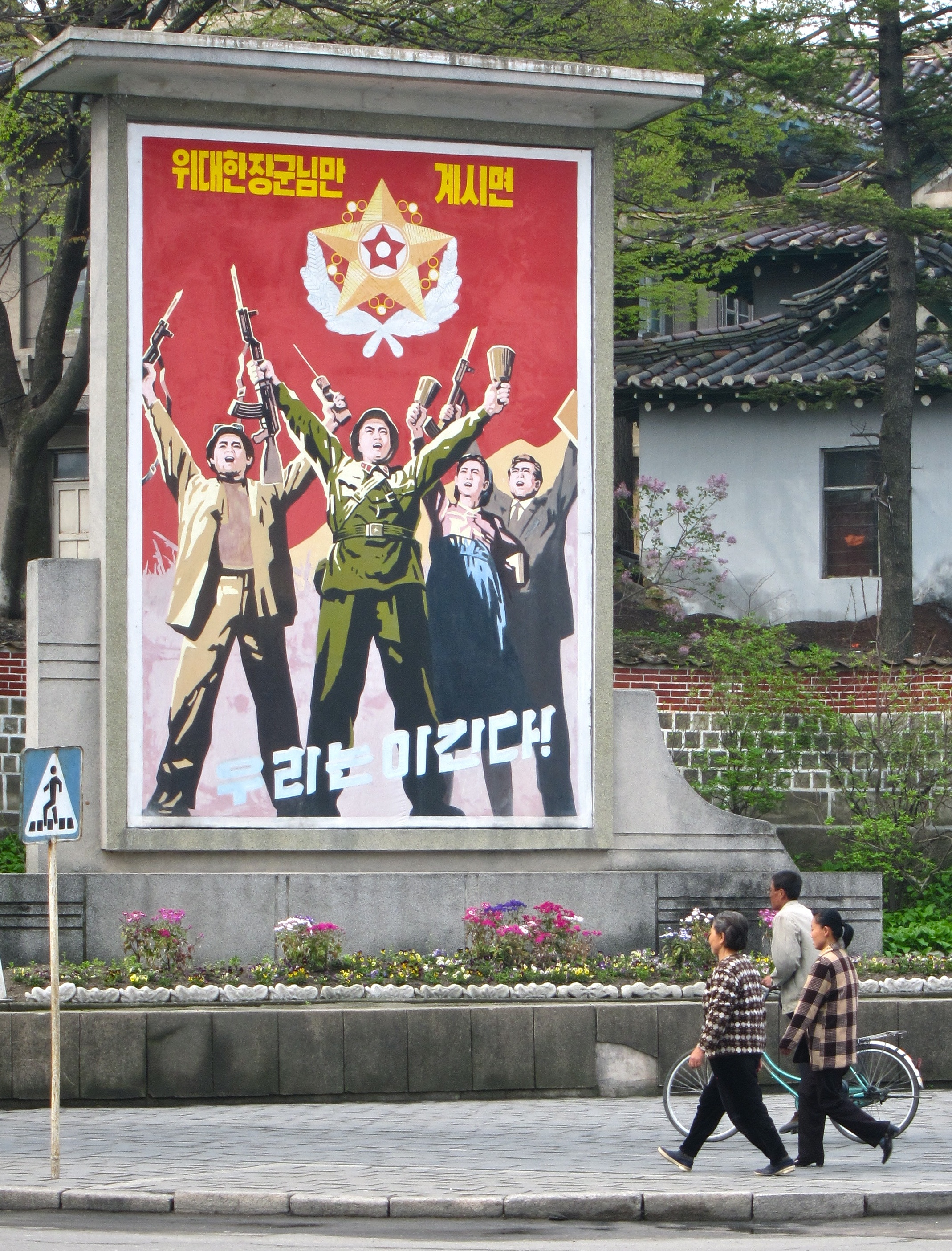 Propaganda in Gaeseong, North Korea